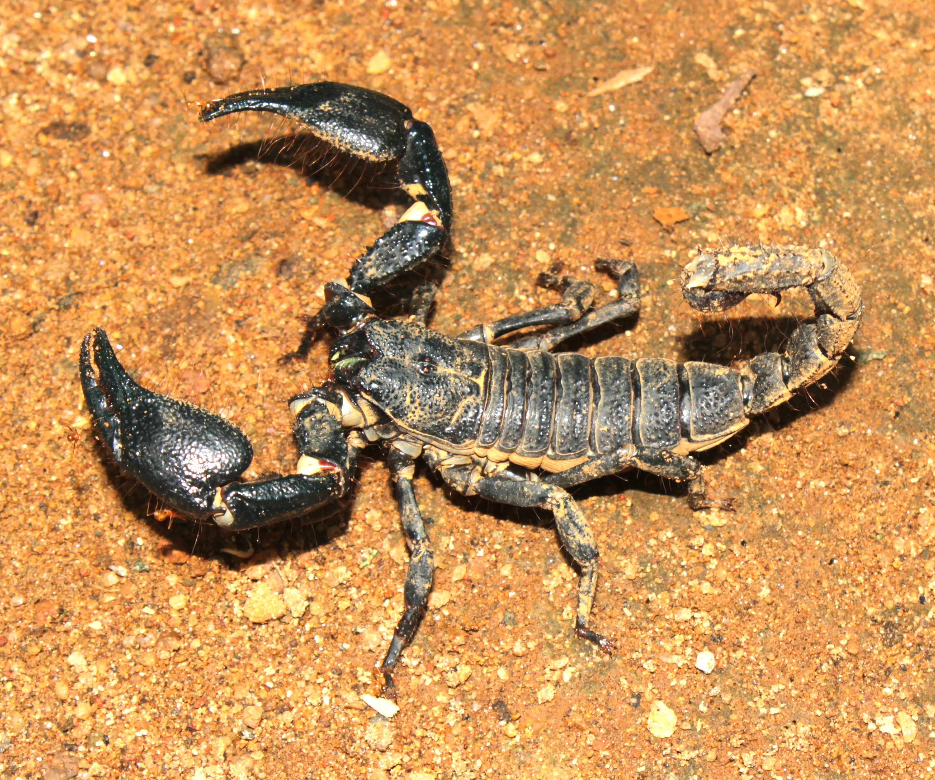 A Heterometrus bengalensis scorpion. Photographed near Kanjirappally, Kerala.